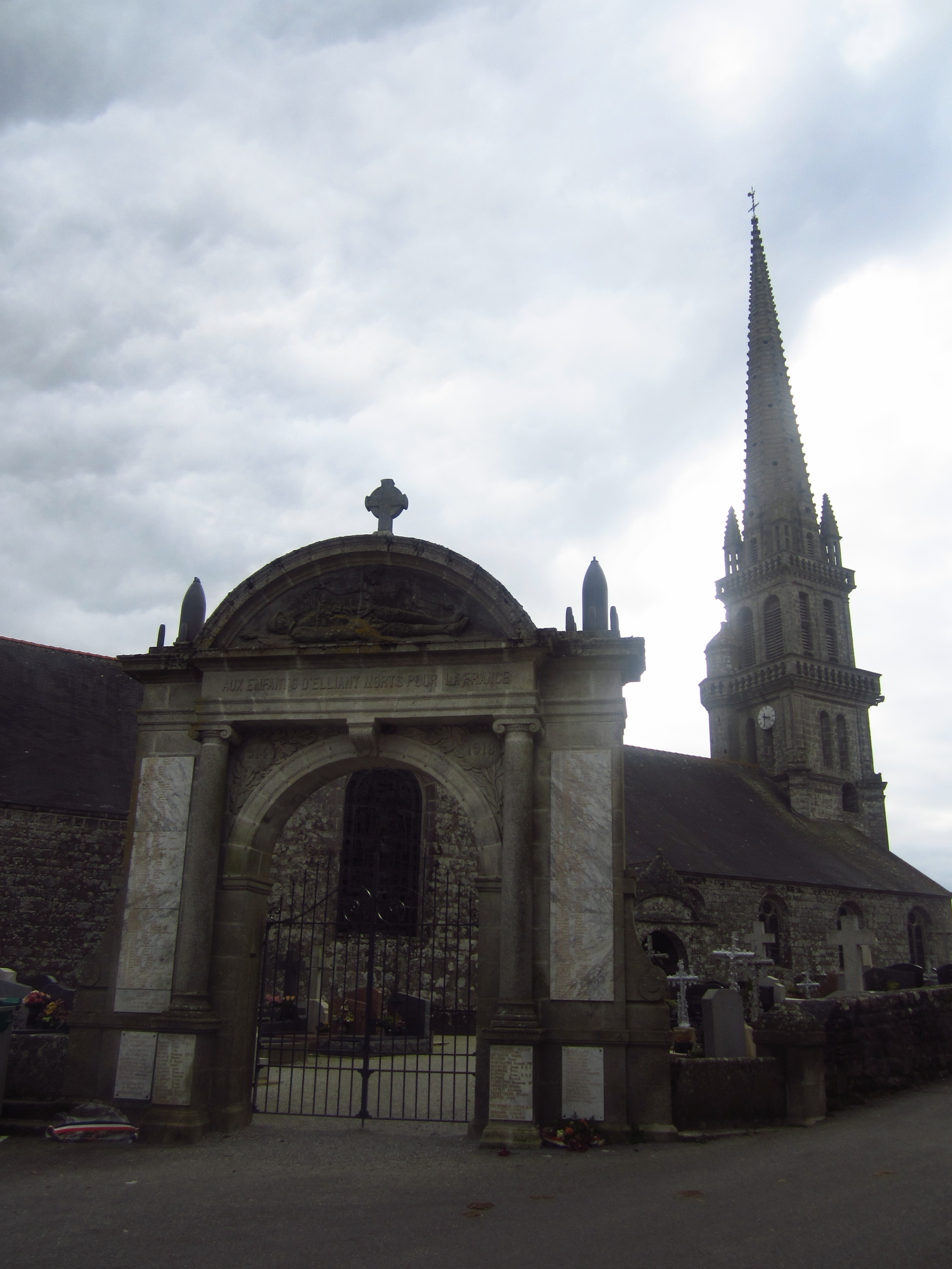 Church of Elliant, Finistère